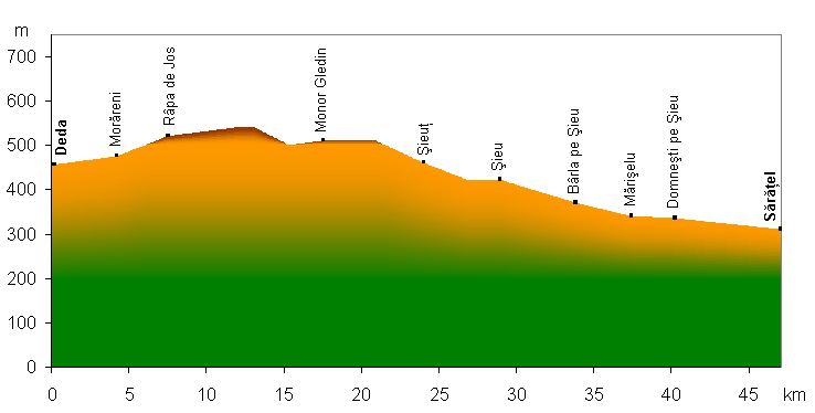 elevation profile of the railway track Deda-Saratel